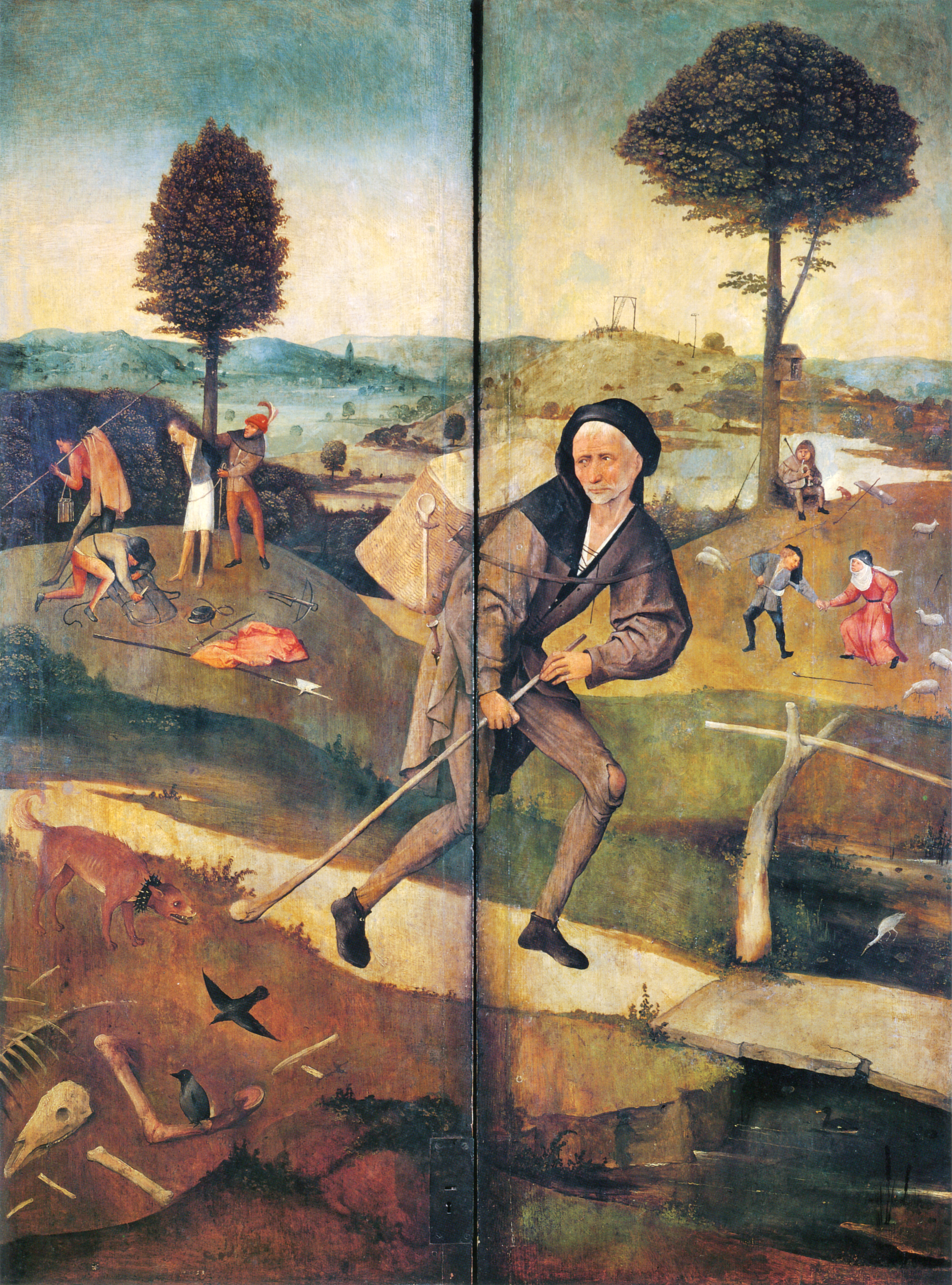 The Pedlar, closed state of The Hay Wain. Oil on panel, 1400 x 1000 mm (55 x 39 3/8"). Museo del Prado, Madrid.